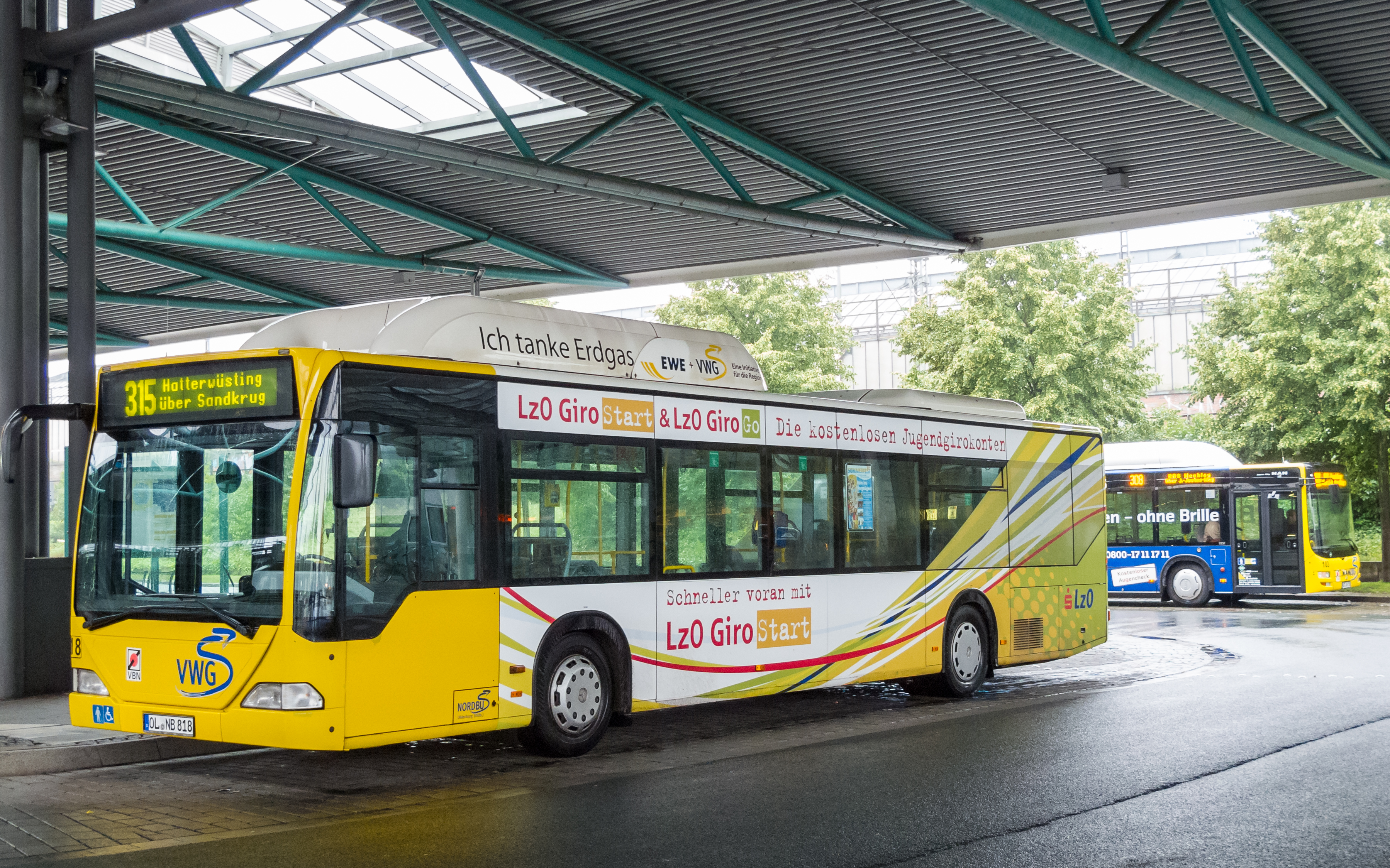 CNG-Bus Mercedes Citaro in Oldenburg, Lower Saxony, Germany. All city buses in Oldenburg are powered by compressed natural gas (CNG).